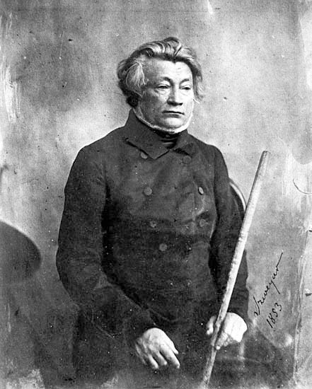 Adam Mickiewicz.